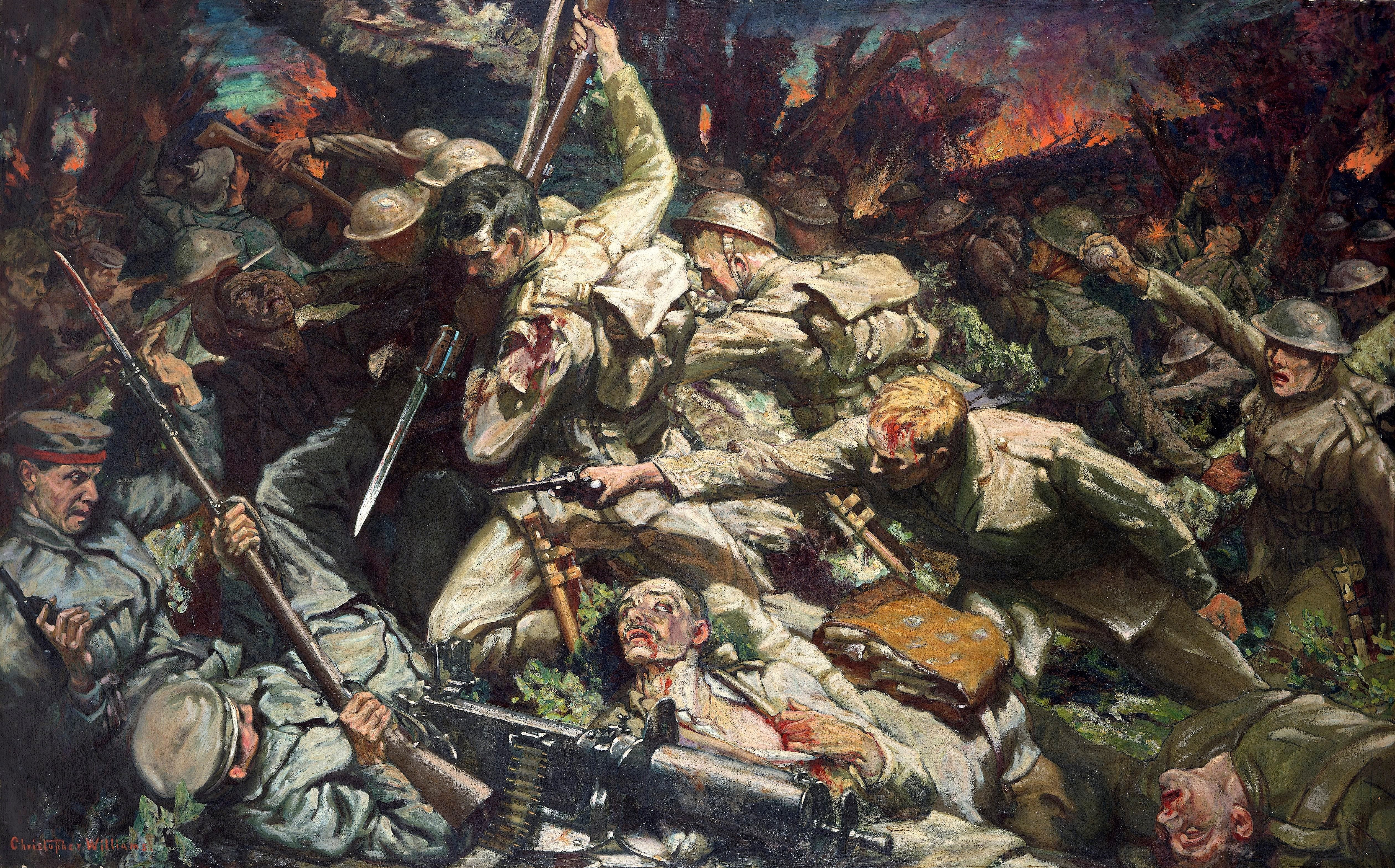 'The Welsh at Mametz Wood' painted by Christopher Williams (1873-1934). Williams was commissioned by Secretary of State for War David Lloyd George. Williams, who was not an official war artist, was allowed to visit the site in November 1916. Williams had soldiers pose for his work, and completed preparatory sketches. The painting, itself, was completed by 1917. William's work depicts the brutual fighting undertake by the 38th (Welsh) Division at Mametz Wood on 11 July 1916 (Christopher Williams. BBC. Retrieved on 15 December 2015. and 'The Welsh at Mametz Wood'. Wales at War. Retrieved on 15 December 2015.).